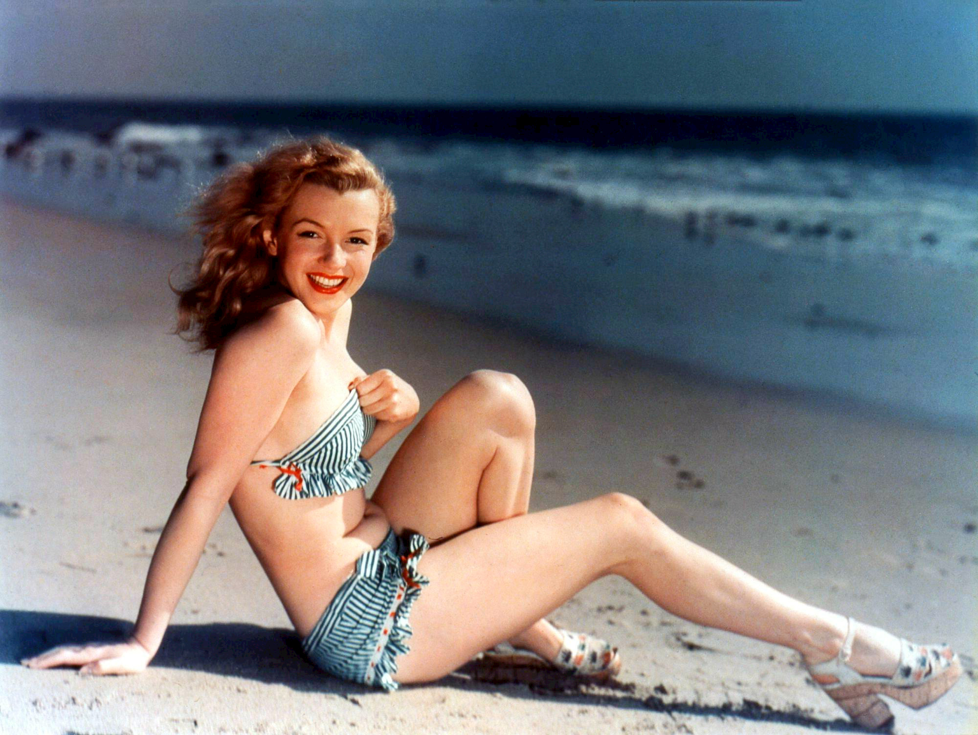 Postcard photo of Marilyn Monroe. The photo is from her pre-stardom days when she did shoots for calendar photos, etc.